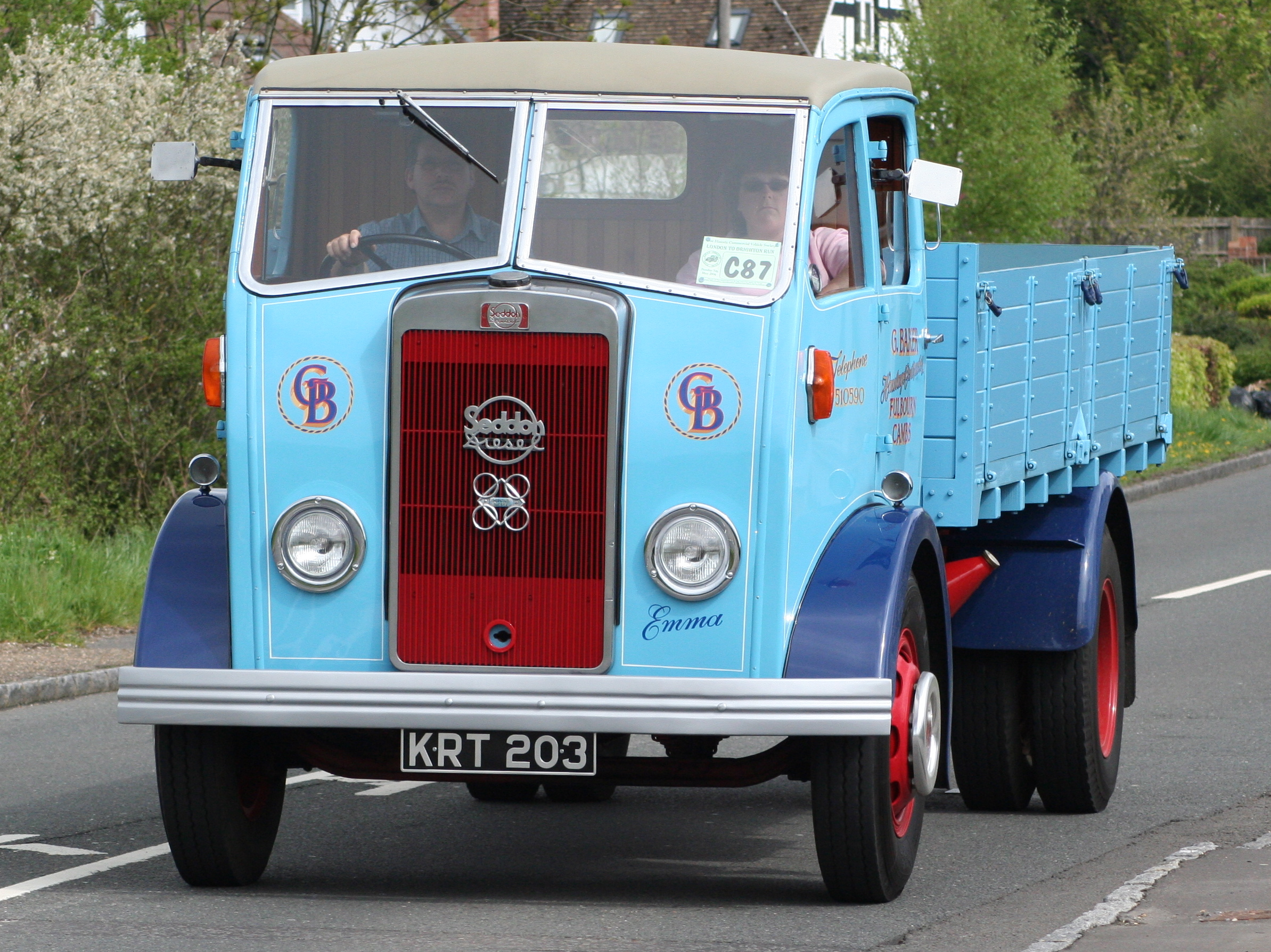 Seddon Mk. 5L, 1950